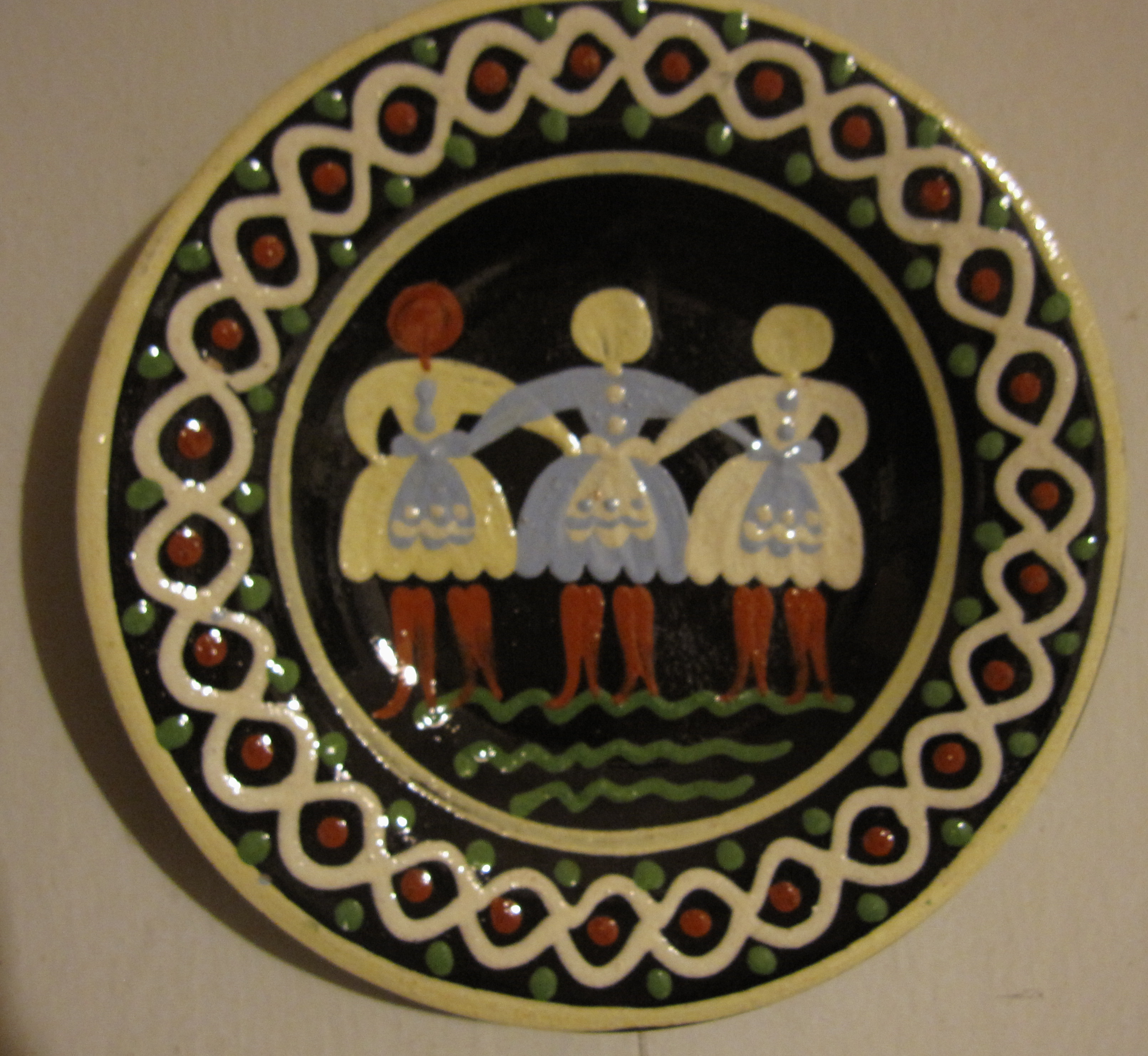 Pozdišovce ceramics, the plate, design - dancers, 20th century, the signature "Parikrupa", Pozdišovce, Slovakia